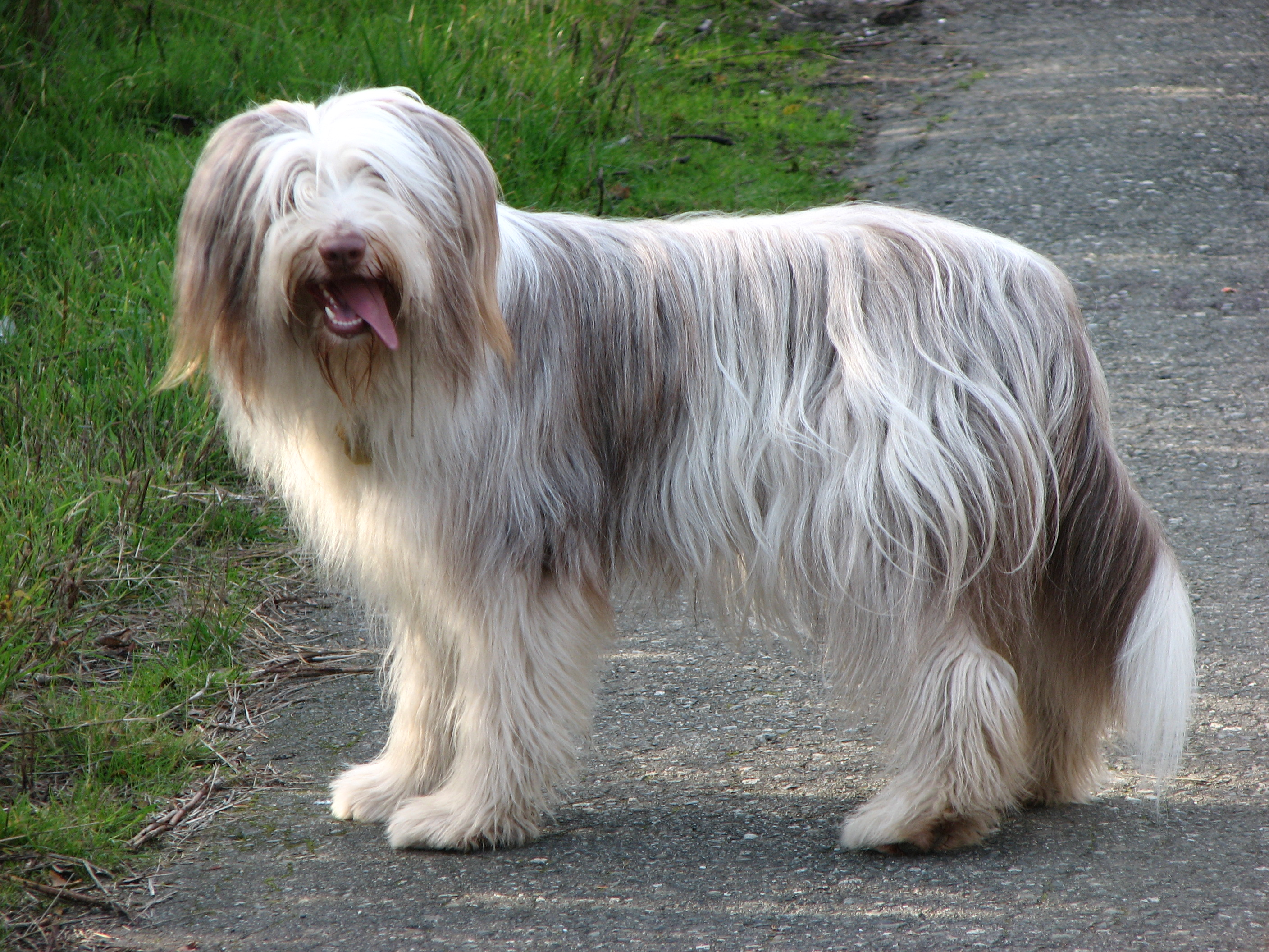 Bearded Collie